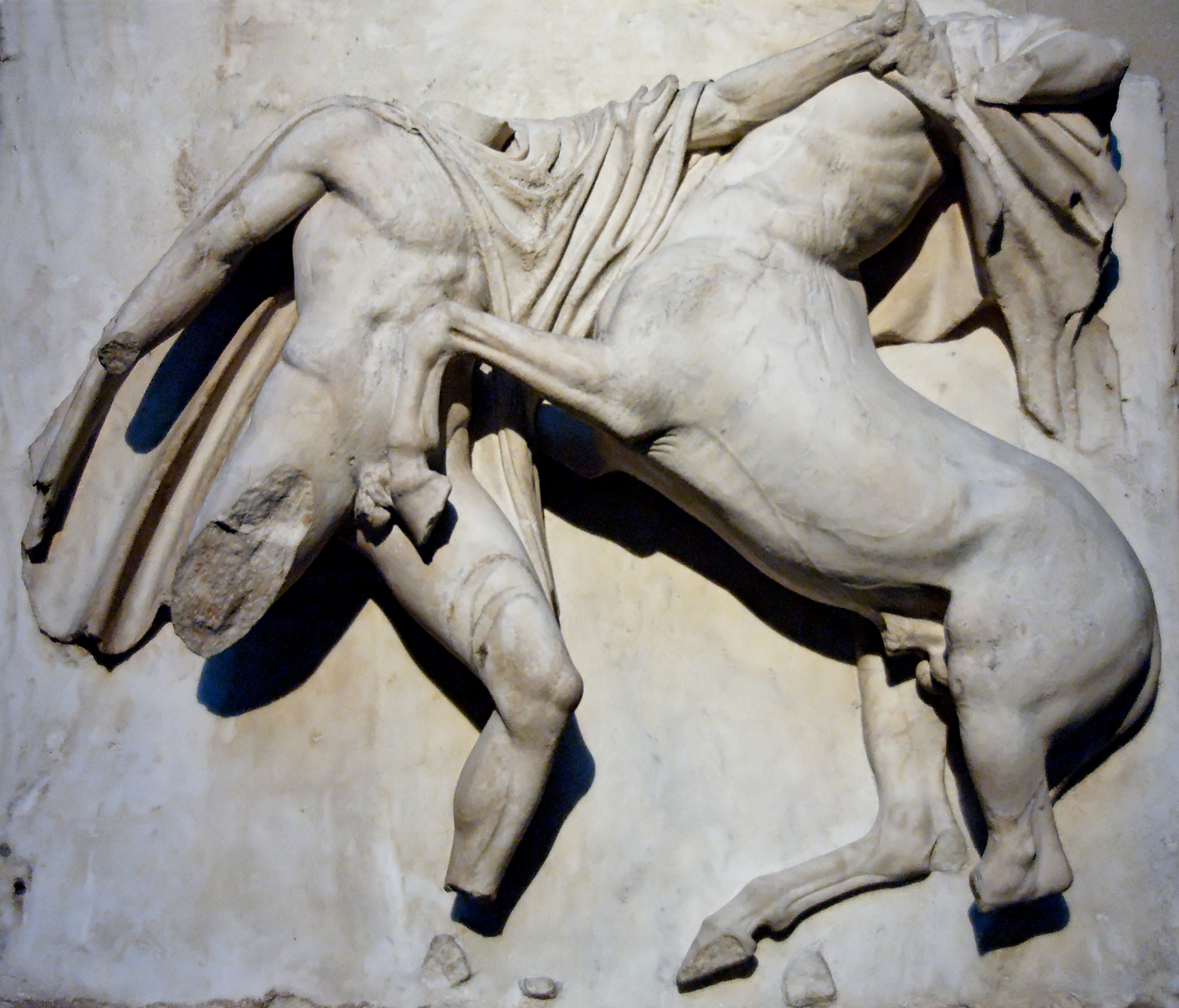 Lapith fighting a centaur. South Metope 7, Parthenon, ca. 447–433 BC.